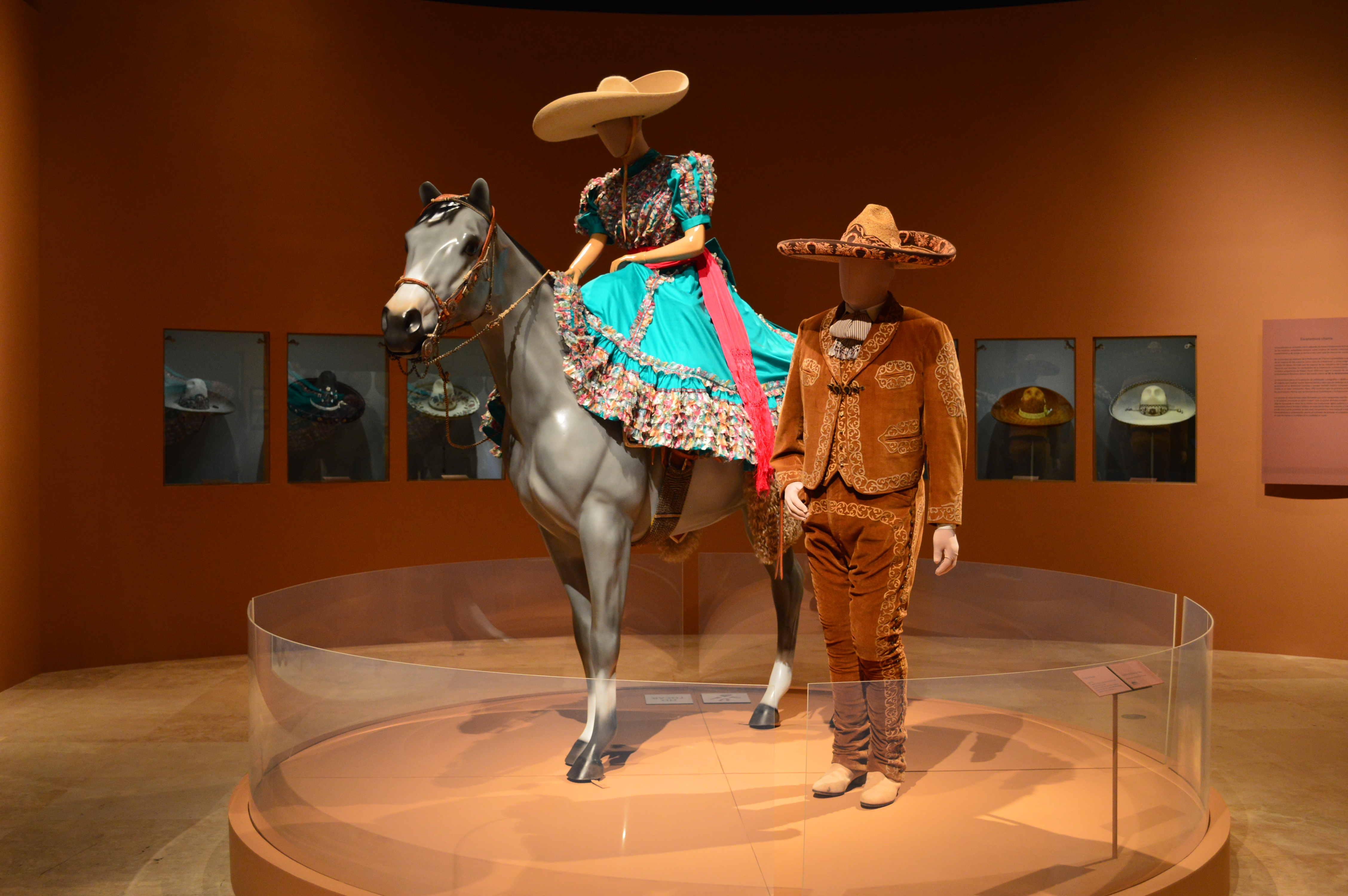 Mannequins with charro outfits on display at the Museo del Noreste in Monterrey, Mexico